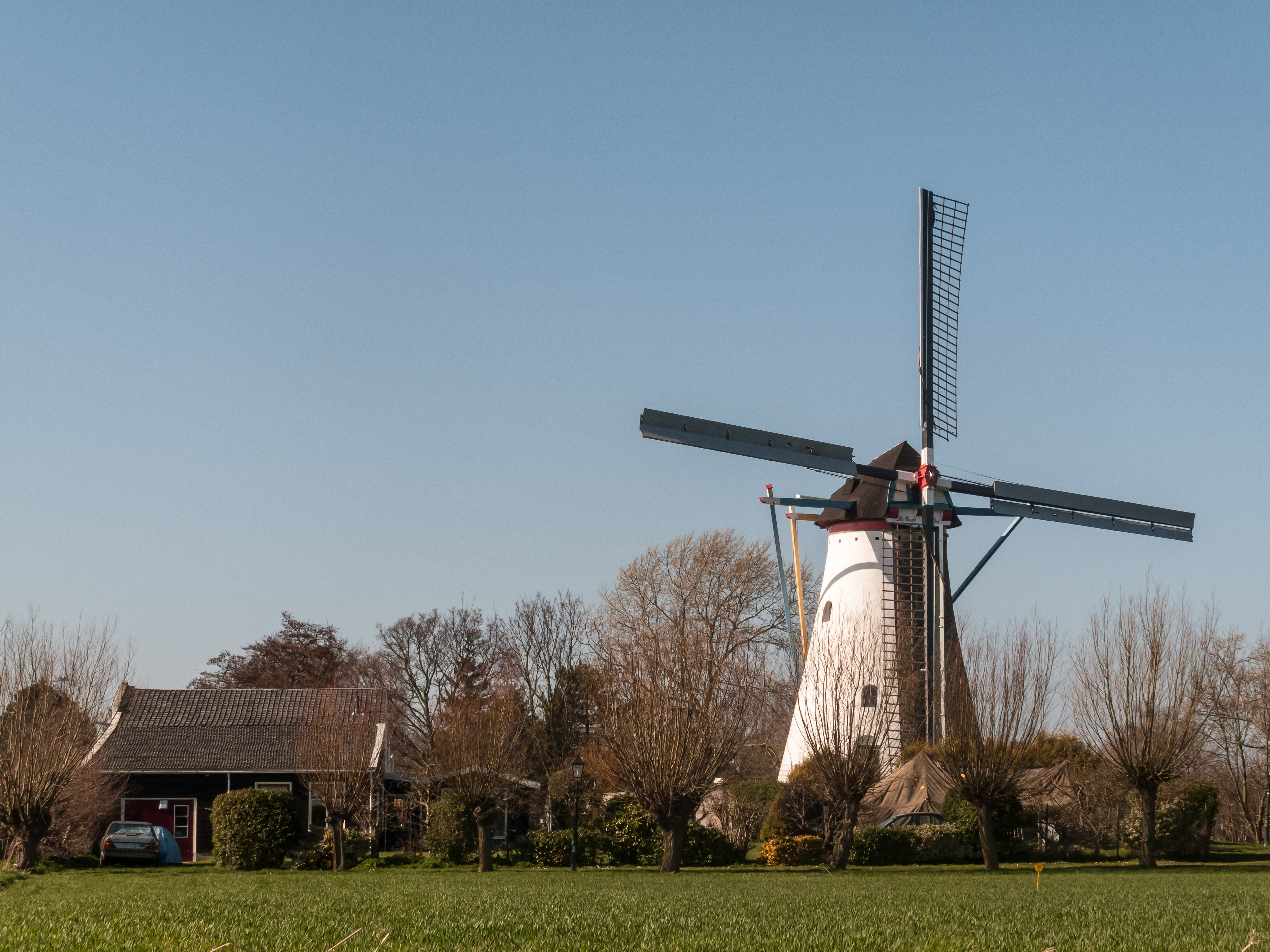 Colijnsplaat, windmill: de Oude Molen